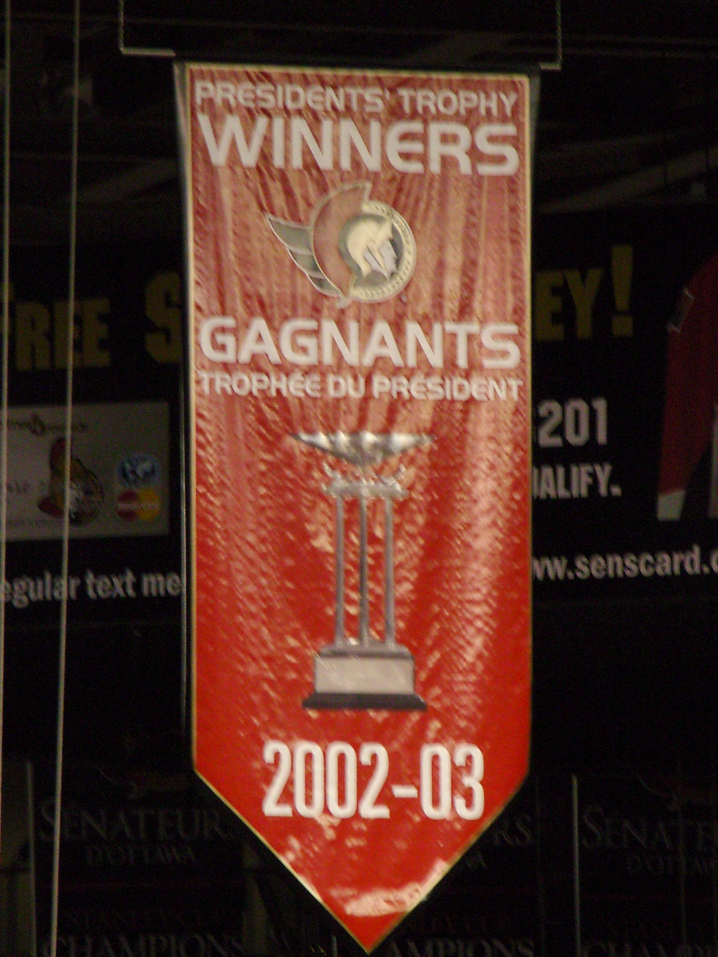 Banner commemorating Ottawa Senators 2002-03 season.